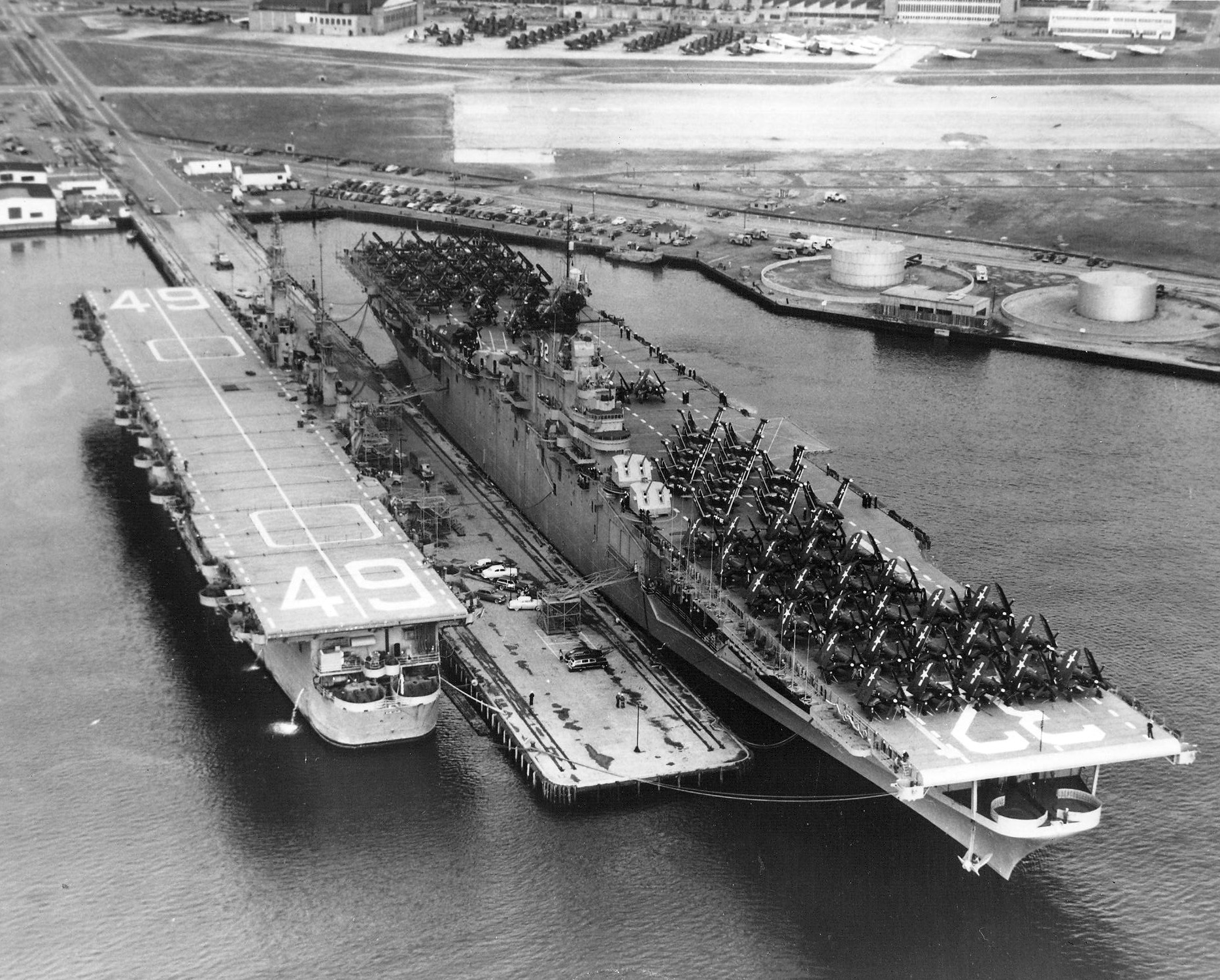 The U.S. Navy aircraft carriers USS Leyte (CV-32) and USS Wright (CVL-49) moored at Naval Air Station Quonset Point, Rhode Island (USA).